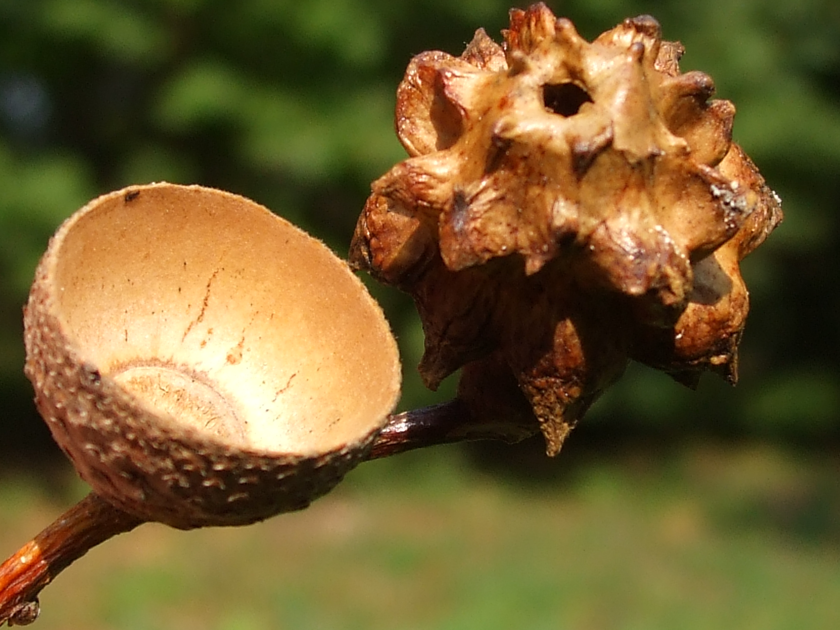 Acorn shell, gall